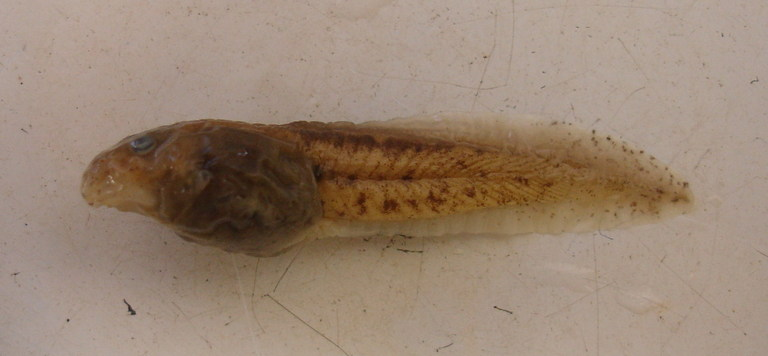 Odontophrynus americanus